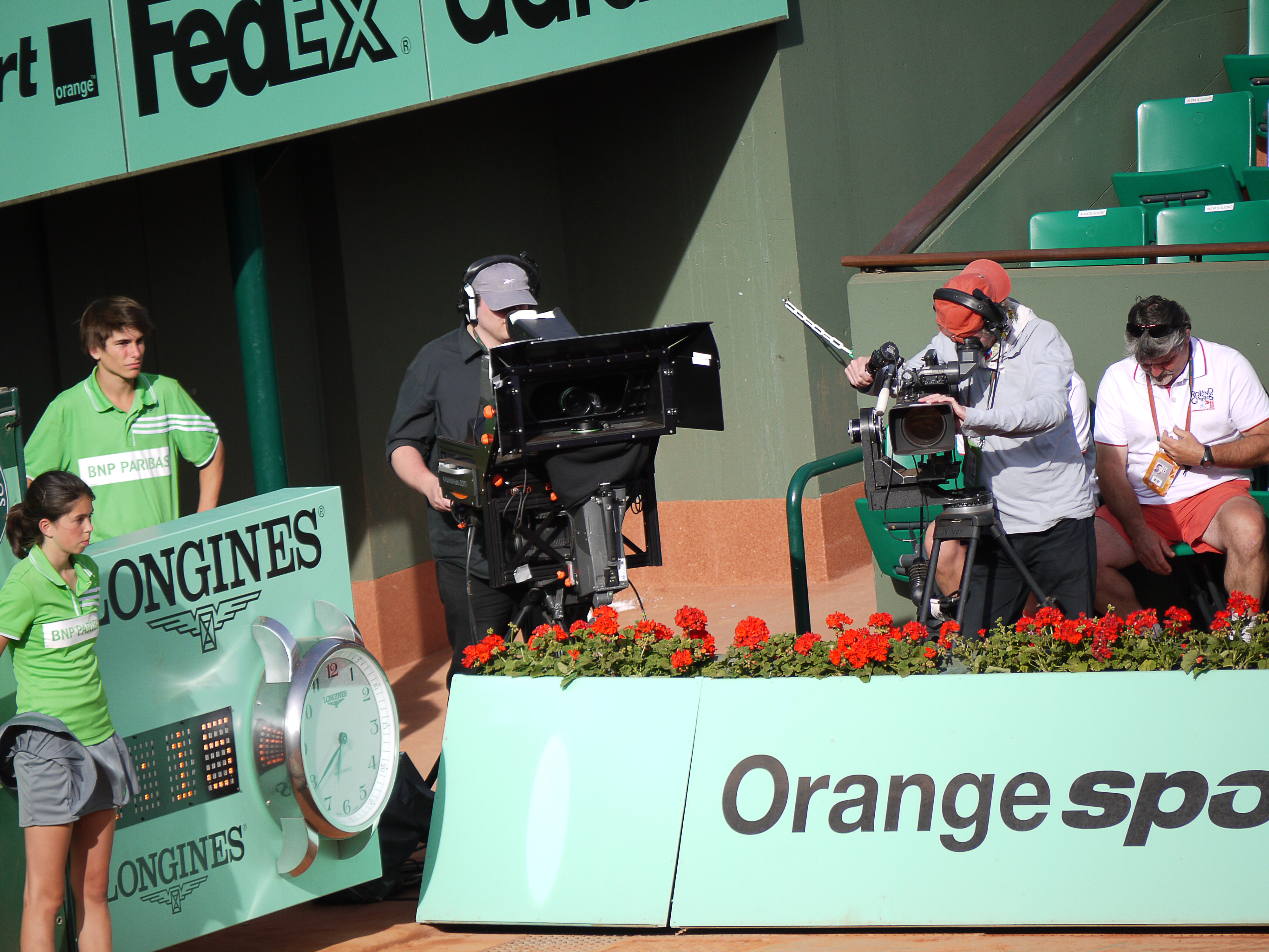 Gilles Simon (FRA) def. Michael Russell (USA) Roland Garros 2011 - mardi 24 mai - 1er tour - Court Philippe Chatrier 2011 Roland Garros.